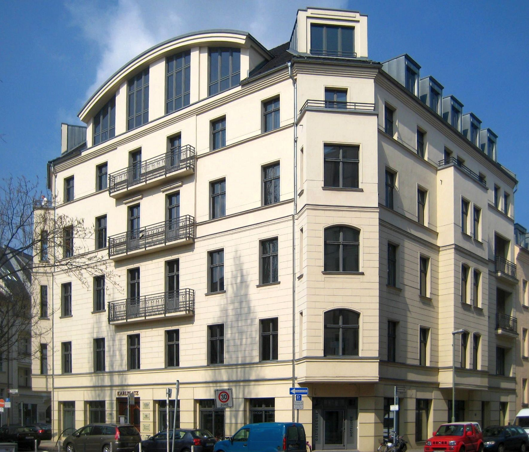 Office building at Karlplatz No. 7, corner of Charitéstraße (left) and Luisenstraße (right), in Berlin-Mitte, formerly "Töpfers Hotel". The building was constructed in 1893. It is part of the protected historic buildings area Friedrich-Wilhelm-Stadt.